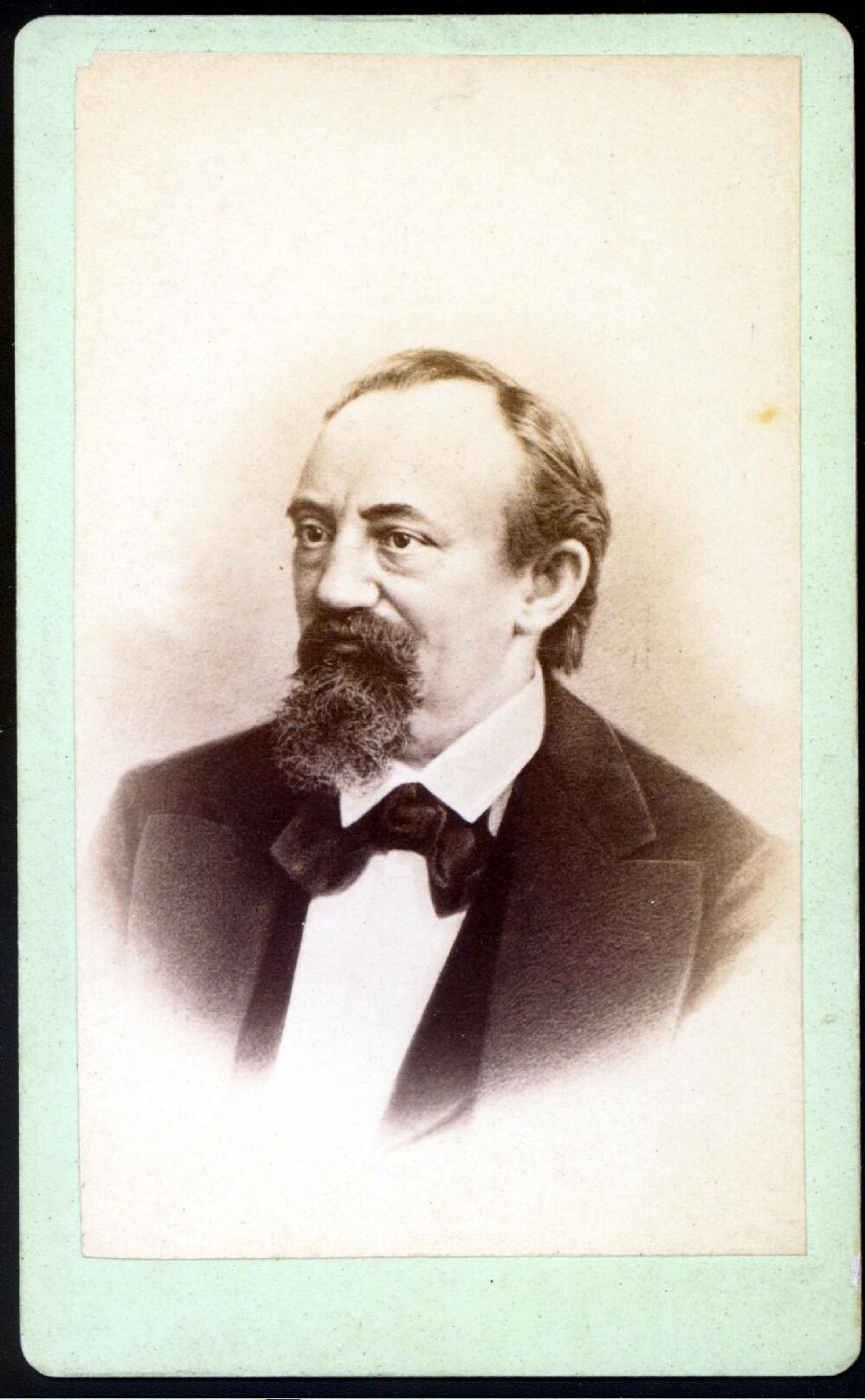 Carl Daenzer, Editor of the Anzeiger des Westens. Carte de visite by Cramer, Gross and Co., ca. 1879 Missouri History Museum Photograph and Print Collection. Portraits n12053 {"subject_uri":"http:\/\/collections.mohistory.org\/resource\/20881","local_id":"37086" }